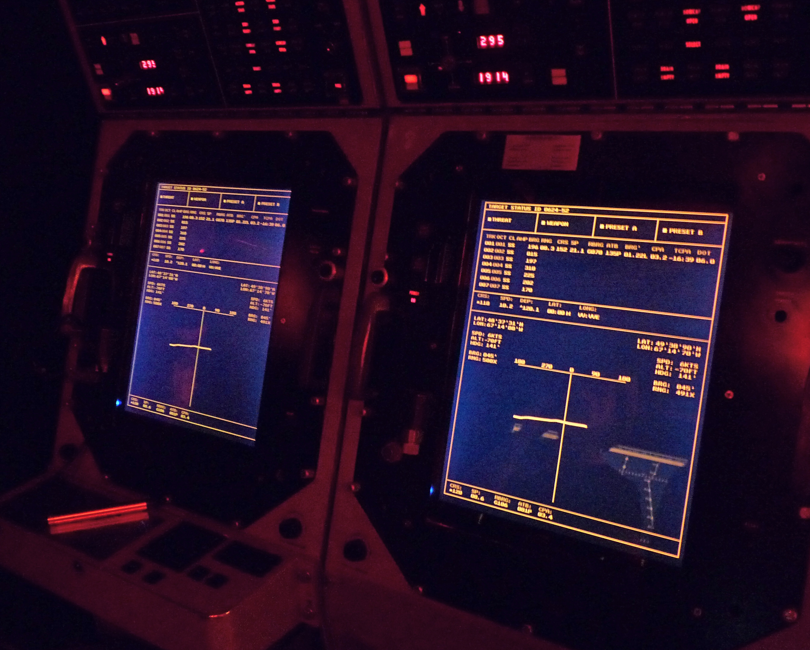 Control screens in the Onondaga submarine